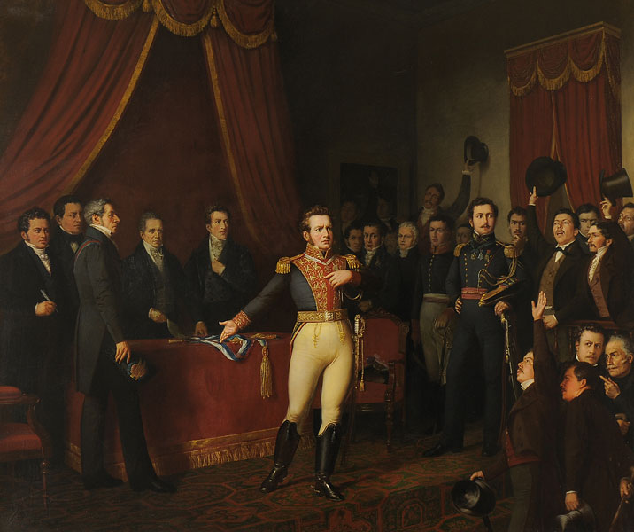 Abdication of Bernardo O'Higgins by Chilean painter Manuel Antonio Caro. The scene shows the climax in which O'Higgins abdicates, surrounded by 24 characters. After a recent restoration, it was discovered that Caro deleted a figure behind O'Higgins, but the identity of the erased figure remains a mystery See .